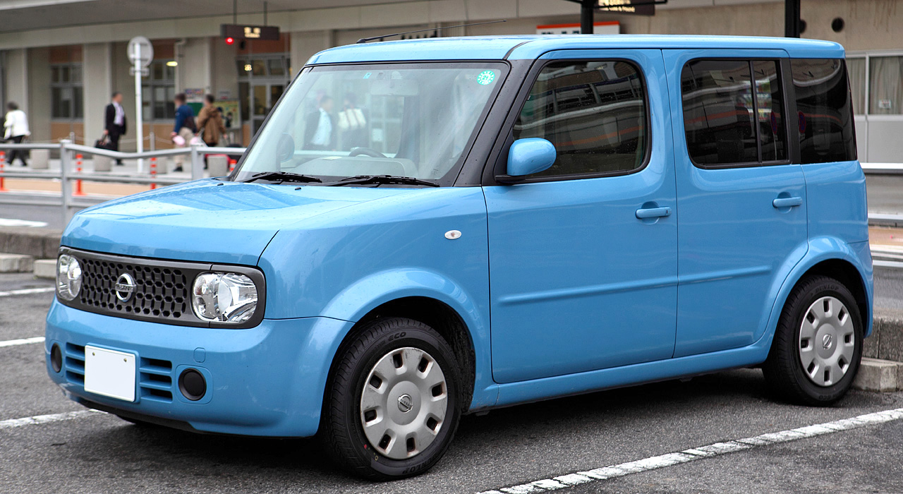 Nissan Cube ( Z11 )